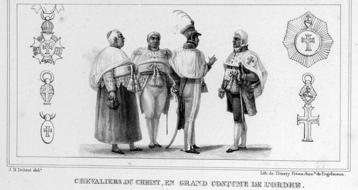 Knights of Christ wearing the gala costumes of the order in Brazil. Crosses of the order are also seen in the margin of the illustration. This order was the most traditional Luso-Brazilian order of knighthood. The order originated in the Portuguese Order of Christ founded by Pope John XXII and King Denis of Portugal in 1318. Today the order is still conferred by the Pope and the Portuguese Republic, but no longer by Brazil. In Brazil the order was known as the "Imperial Ordem de Nosso Senhor Jesus Cristo".